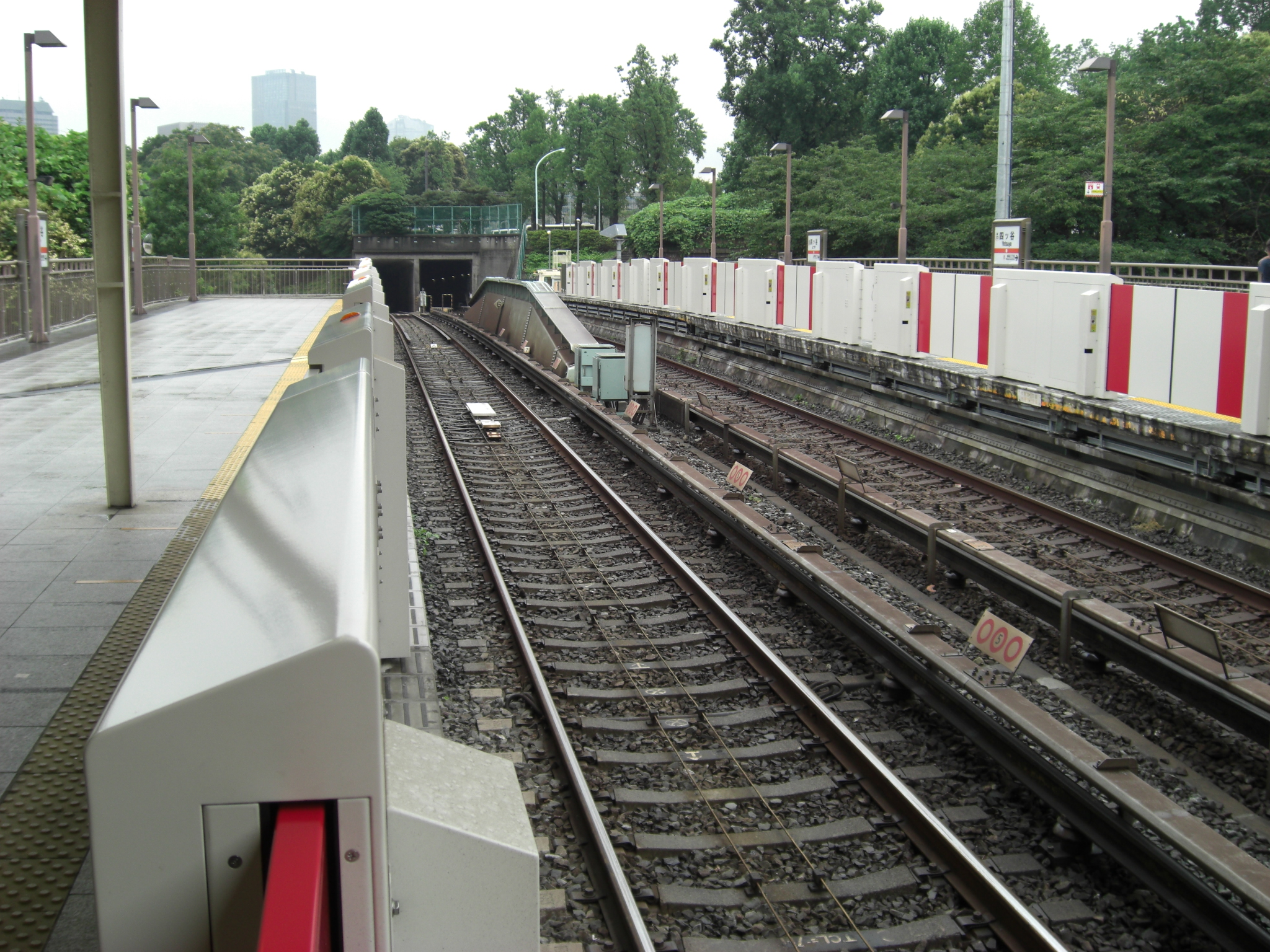 Platform 1 of Yotsuya Station on the Tokyo Metro Marunouchi Line